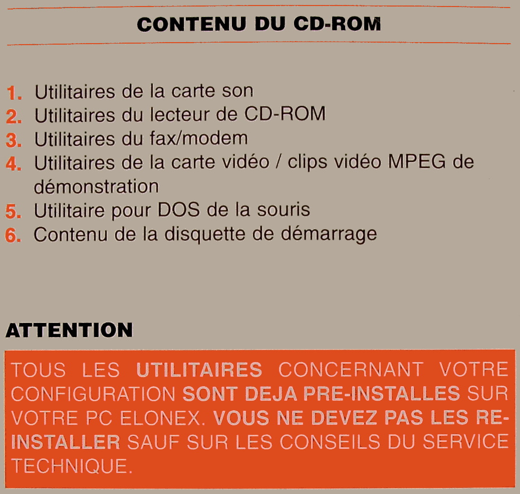 Utility software for an Elonex PC-5120H/I (using an Intel Pentium 120 CPU) desktop computer running Microsoft Windows 95 in 1996.